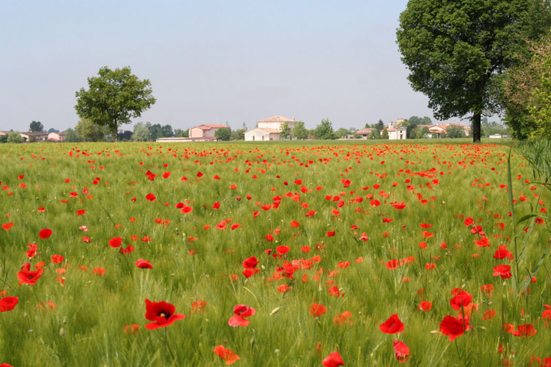 Grain field with flowering poppies (wildflowers/weeds), Castel Goffredo, Italy